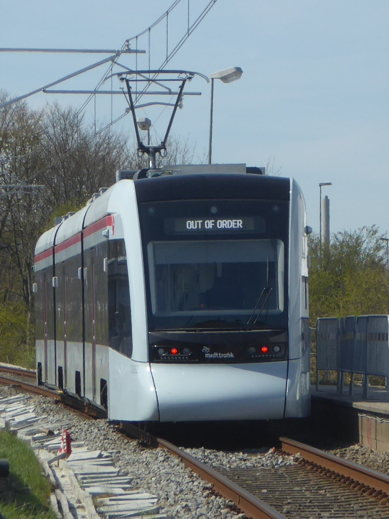 New Stadler Tango tram during a test run at Øllegårdsvej Station on Aarhus Letbane in Denmark.